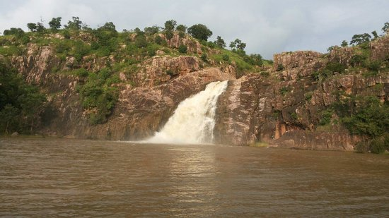 This waterfall is located near Gondia at Darekasa . A wonderful place to see India's one of a numerous natural heritage sites